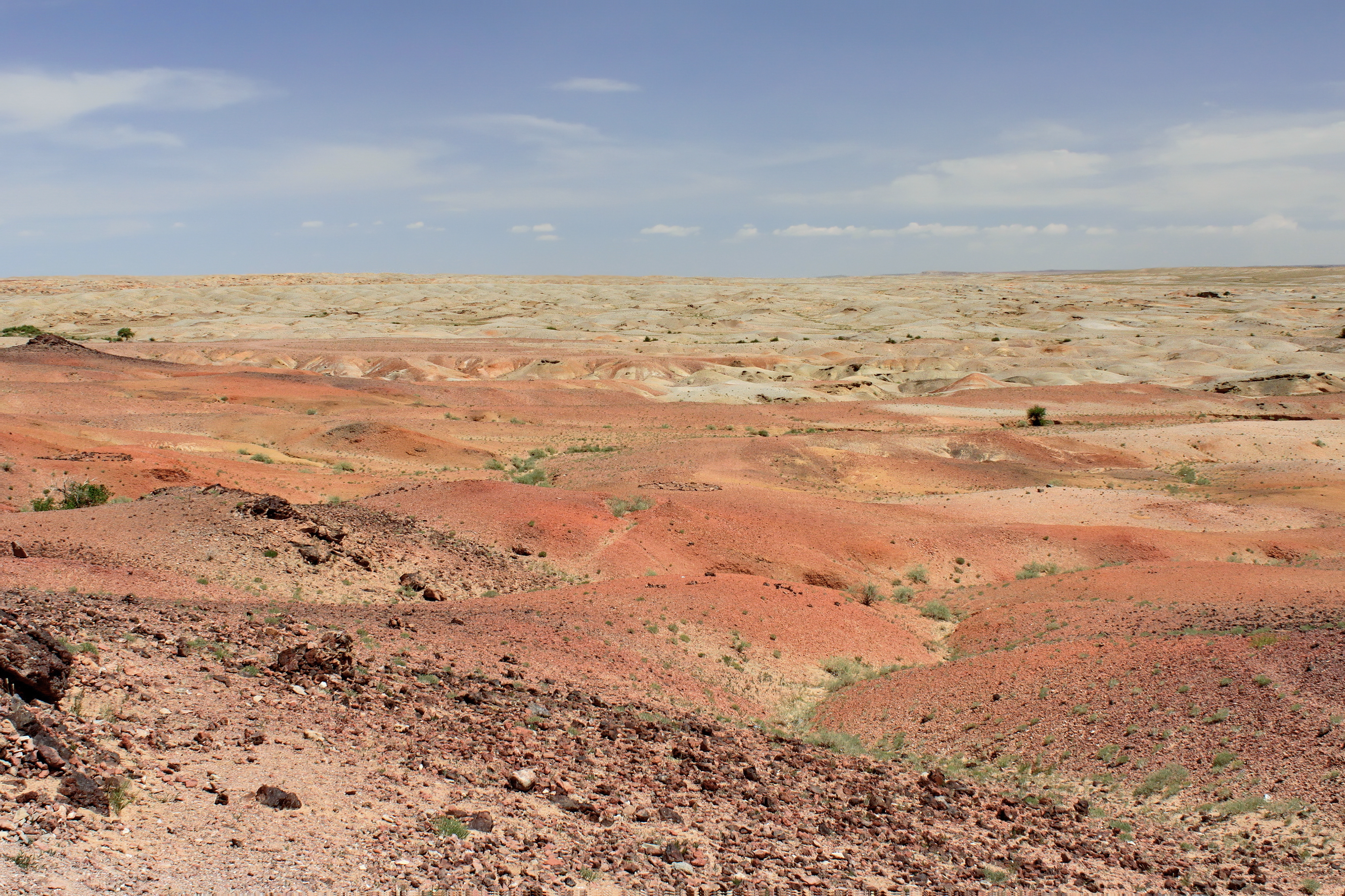 Gobi Desert landscape. Dornogovi Province, Mongolia.